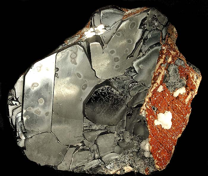 Hematite, Andradite Locality: N'Chwaning Mines, Kuruman, Kalahari manganese fields, Northern Cape Province, South Africa (Locality at ) This is a terrific specimen of hematite with significant size. It is well-formed and with a mirror luster that also has unusual "silky" spots on the front face. It is complete all around the front and sides, though the sides are heavily encrusted with a carpet of andradite garnet and minor bits of clinging matrix and so they are a little rough...but the display face is, as i said, superb Add generous coatings of highly lustrous Andradites that sparkle even in dim light, and this becomes a fabulous specimen of great combination interest and aesthetic appeal. These remarkable specimens were found in teh mid-1980s and remain to this day the largest fine crystals of hematite in the world, by any standard. The classic association with the garnet is just a bonus, to my mind. 9.4 x 7.9 x 3.4 cm